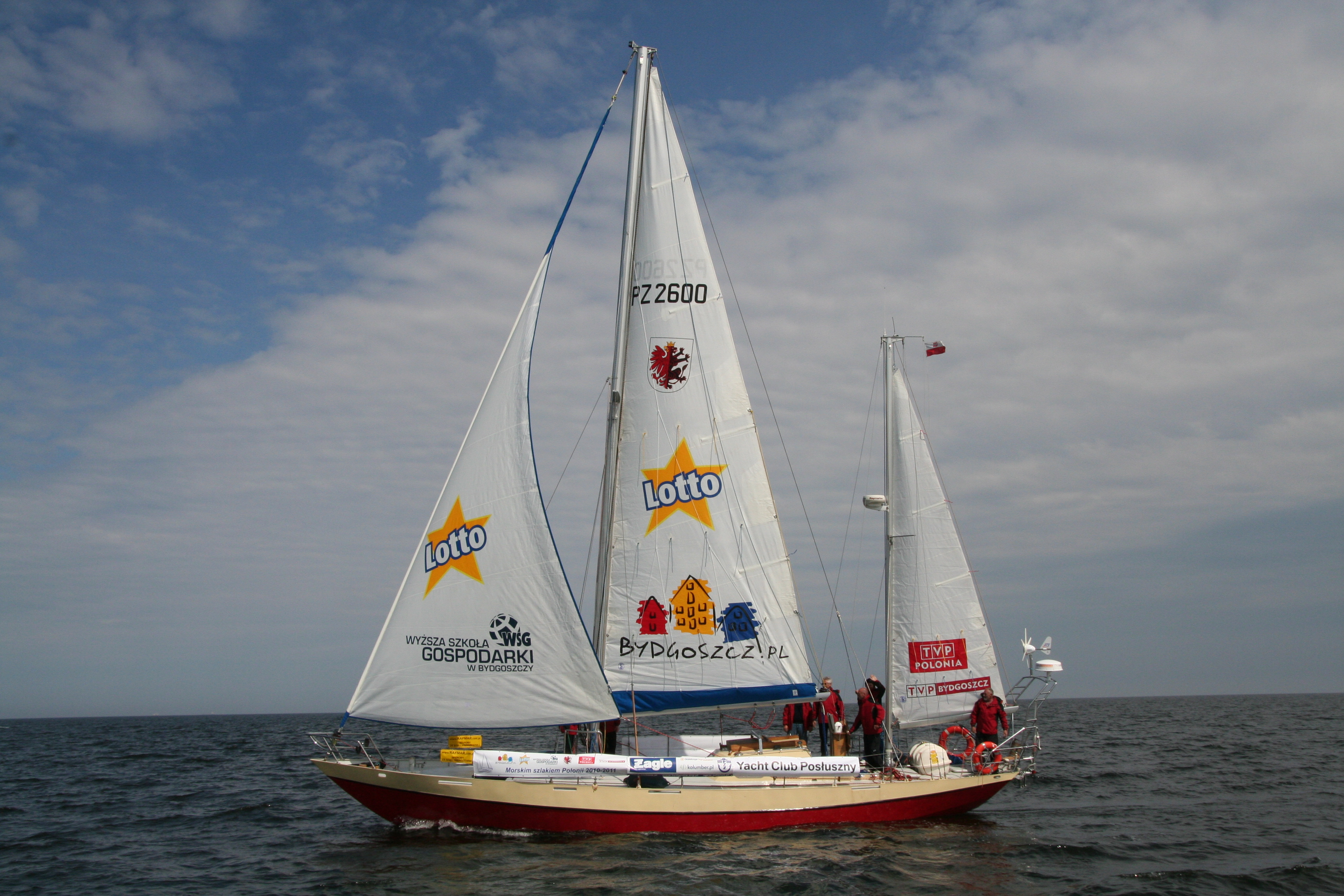 s/y Solanus